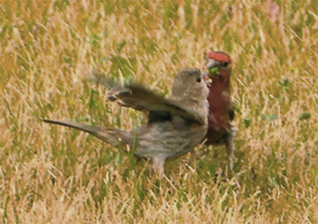 Two House finches going through a Courtship feeding ritual.